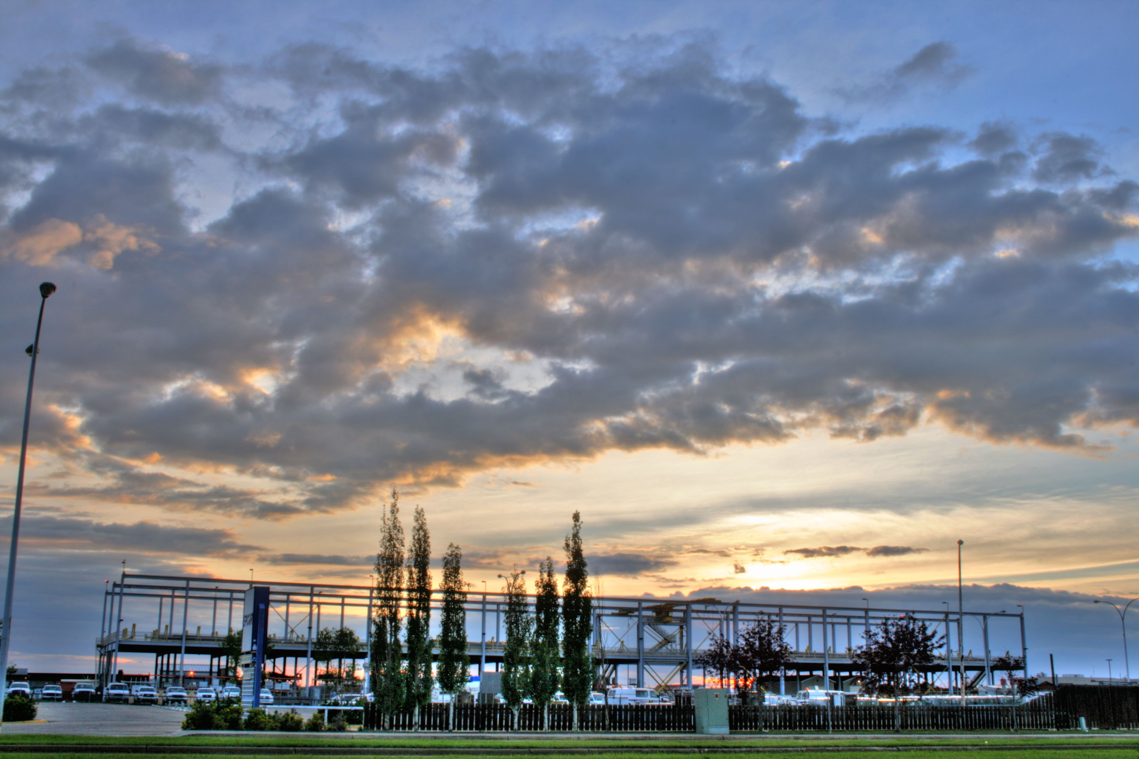 Construction framing in Edmonton, Alberta, Canada.